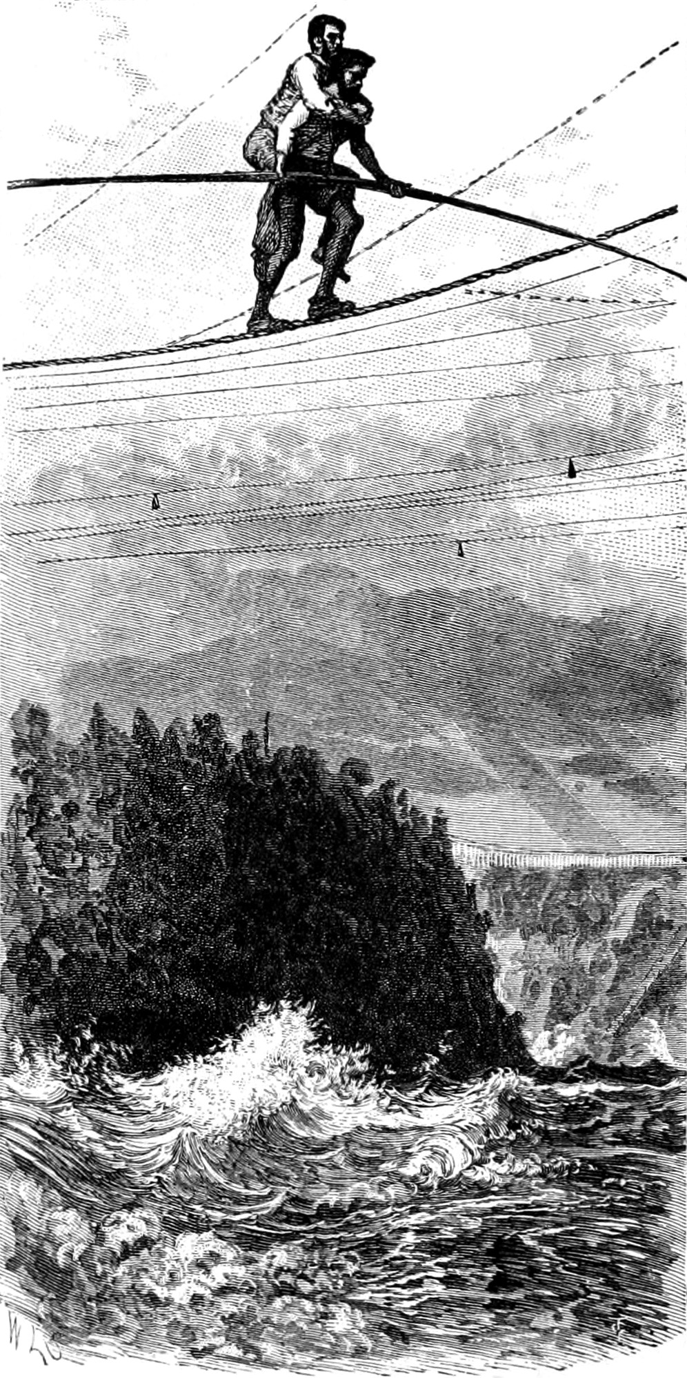 Engraving of Blondin crossing a tightrope over the Niagara River while piggy-backing his manager